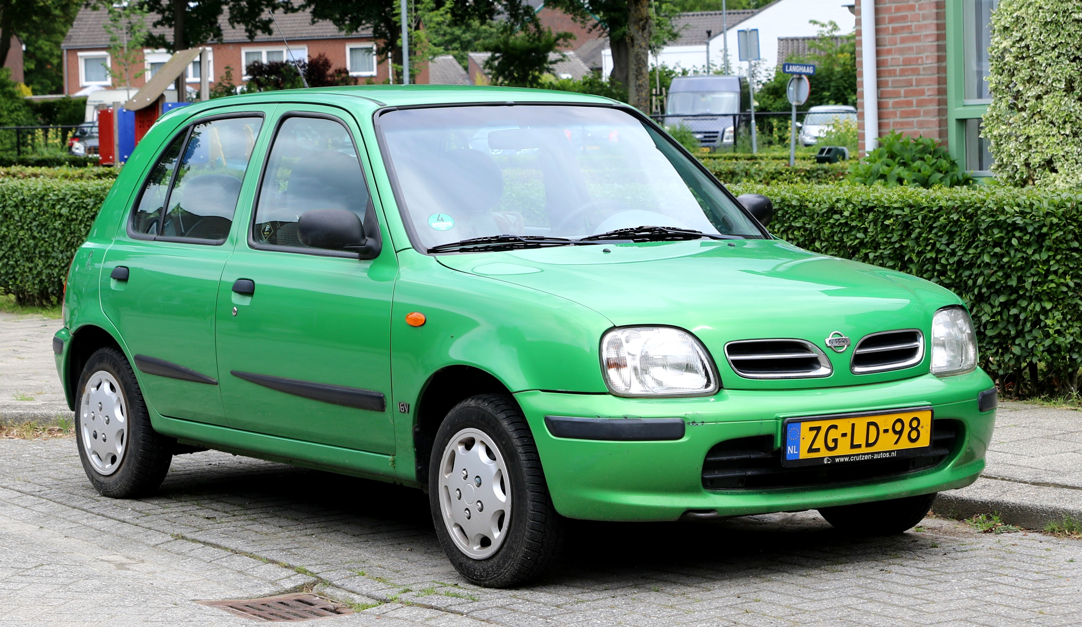 Nissan Micra (K11) in Limburg